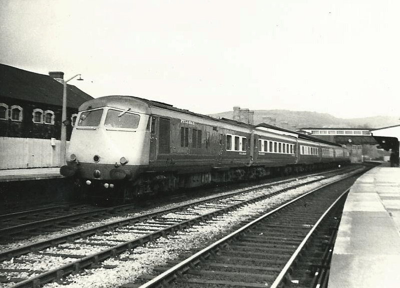 Metropolitan Cammell 8-car "Blue Pullman" dmu Nos.W60099, W60649, W60739, W60749, W60748, W60738, W60648, W60098 on the Paddington-Swansea (High St) "South Wales Pullman" with Type 1 1,000hp power car leading, in the Nanking Blue & White Pullman livery with an all-yellow warning front end that unfortunately covered the Pullman emblem, at Neath (General), 06/67. It could be said that the concept of the Blue Pullmans was a precursor of the HST's. Scanned photograph taken with a Kowa SET camera.